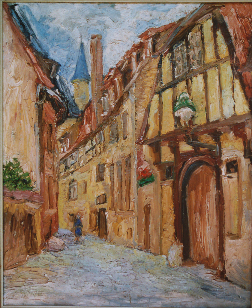 Painting of Kleine Gildewart (Osnabrück) by Hella Hirschfelder-Stüve.